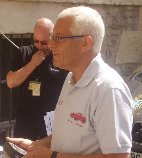 Antonio Zanini Sans before the start of Ecorally Vasco Navarro (Vitoria-Gasteiz, Spain, July 16th, 2010)